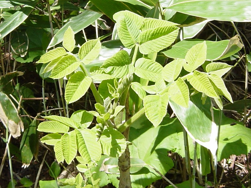 Toxicodendron vernicifluum foliage